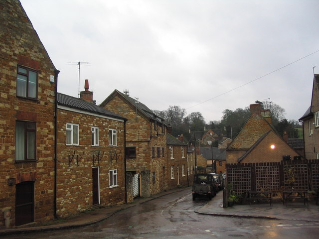 Church Street, Cottingham